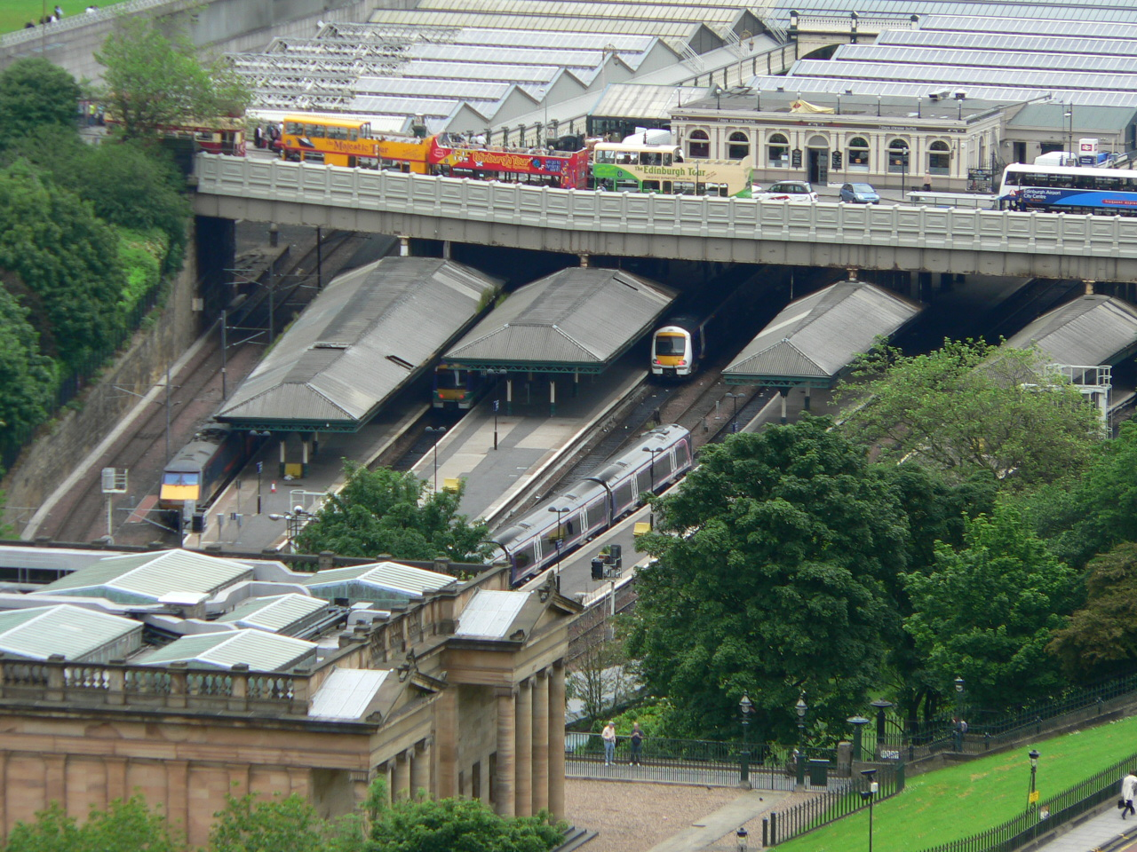 Edinburgh Waverley station, viewed from Edinburgh Castle. Note the buses parked nose-to-tail on the bridge over the station. From left to right the trains visible are: A GNER Class 91 electric locomotive at the rear of a southbound Intercity 225 service Two southbound Class 170 DMUs, the left one in ScotRail livery the right hand one in First ScotRail livery First ScotRail-livieried Class 170 DMU 170458 arriving into the station, also with a southbound service.